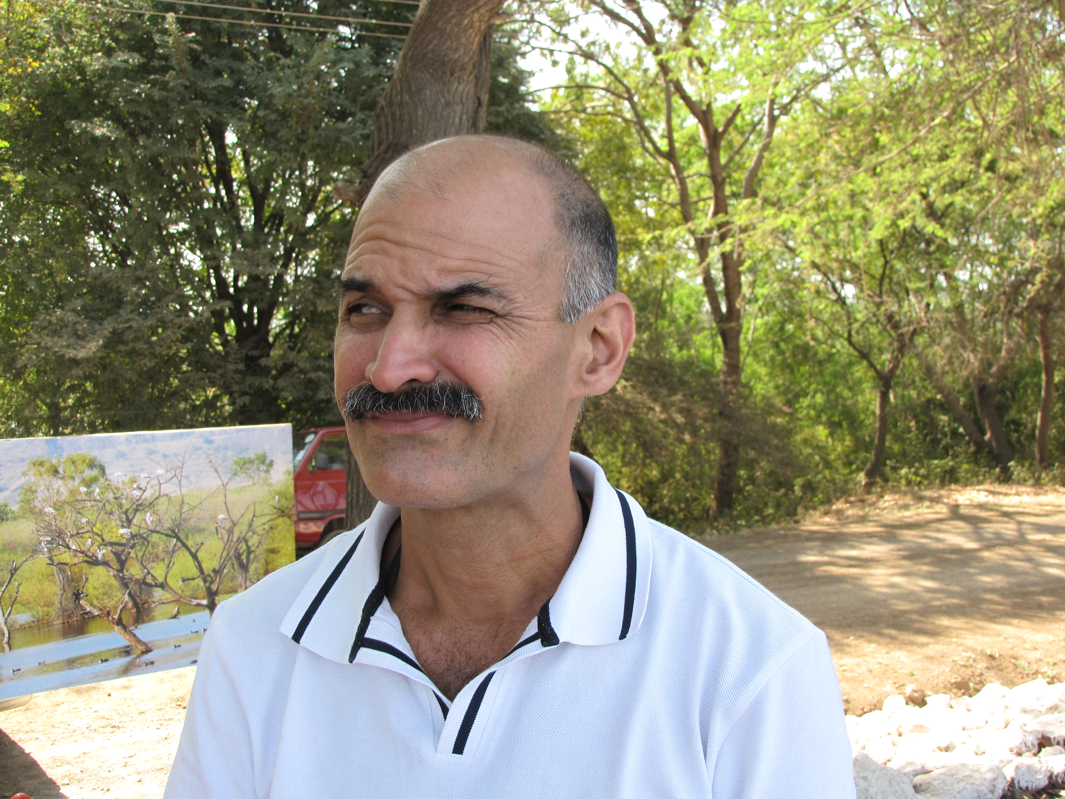 Ashok Captain, Indian herpetologist and taxonomist.